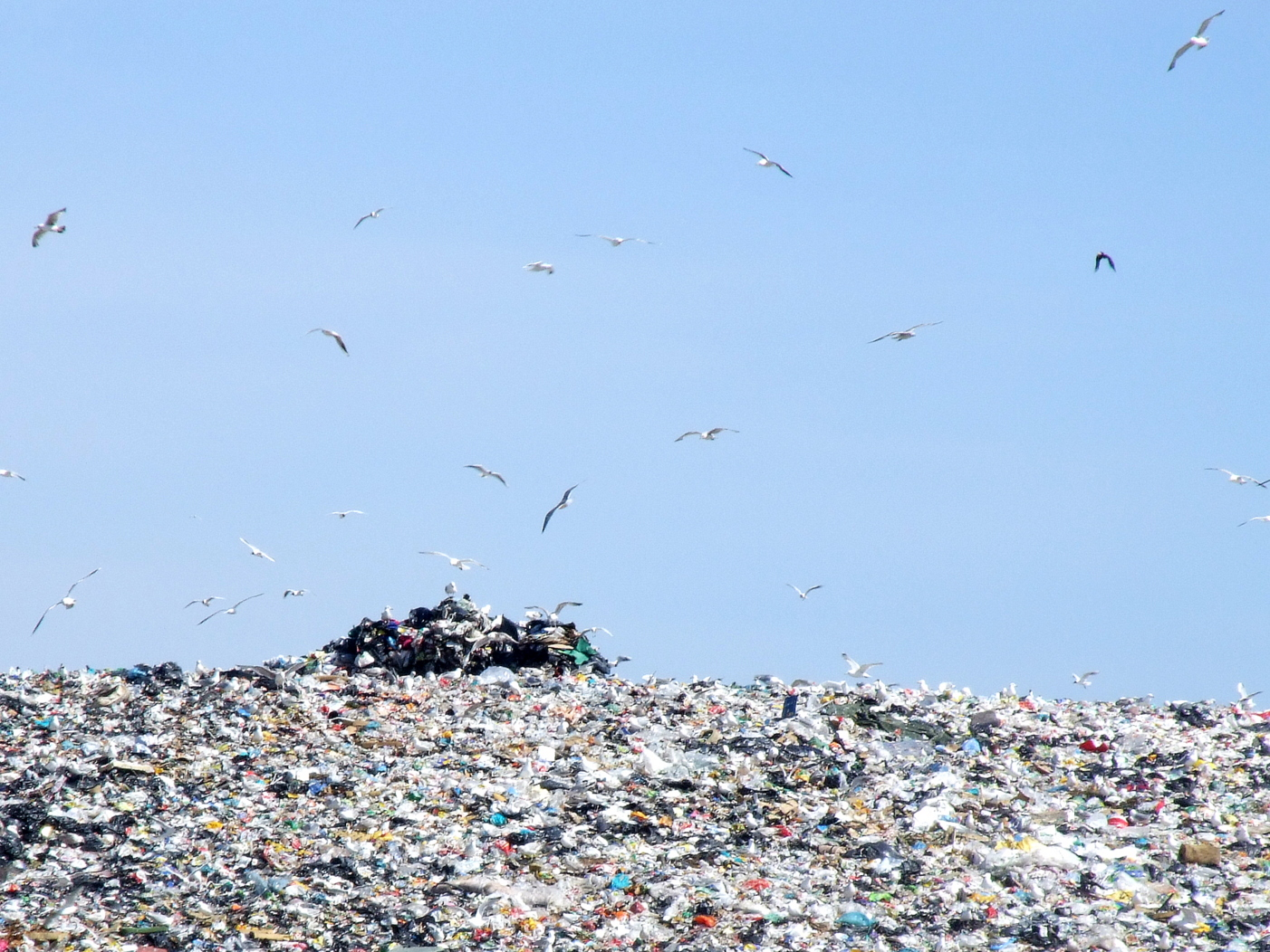 Gulls and other birds in the Rusko landfill site in Oulu, Finland